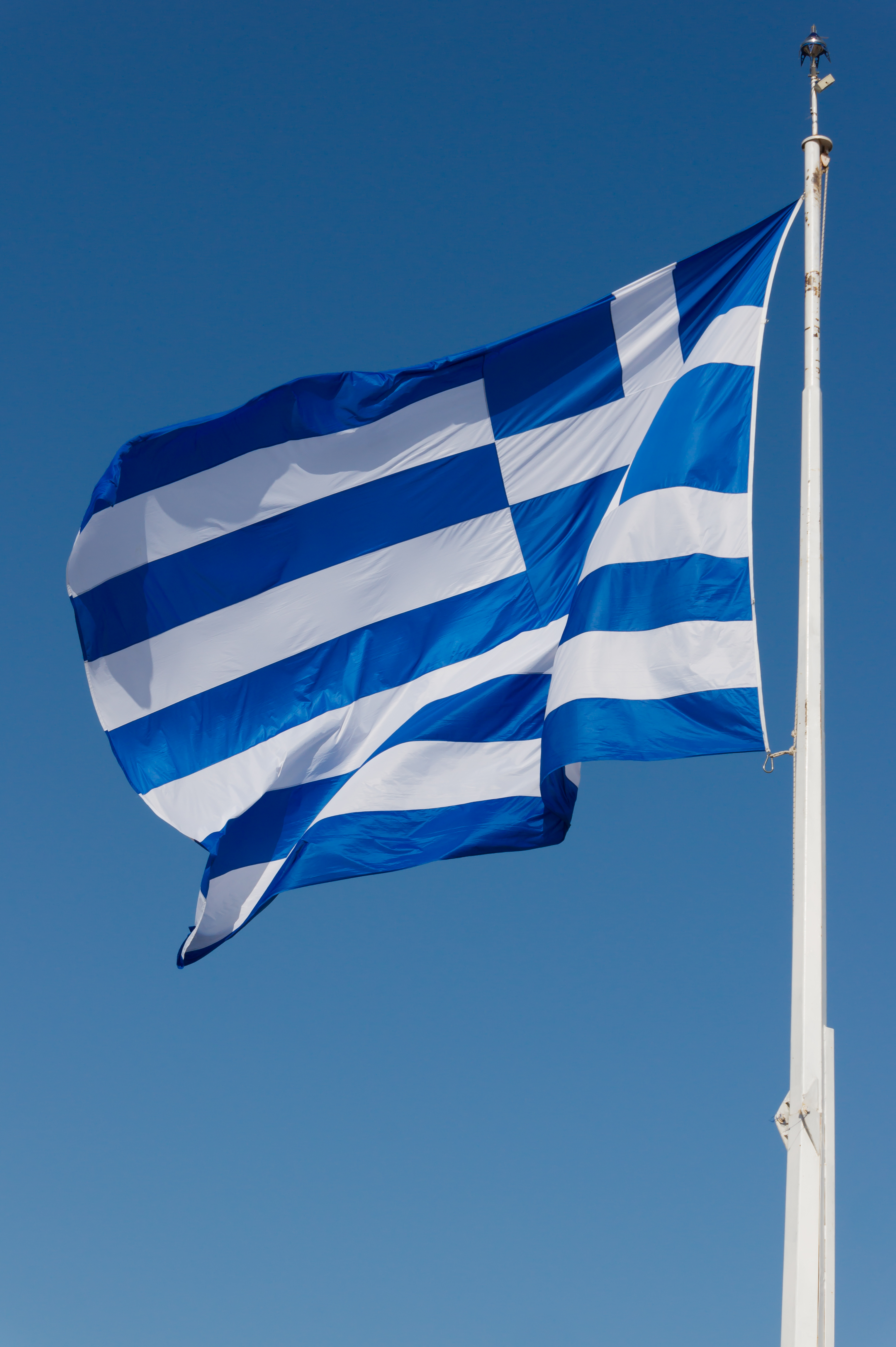 Flag of the Hellenic Republic, Acropolis, Athens, Greece.